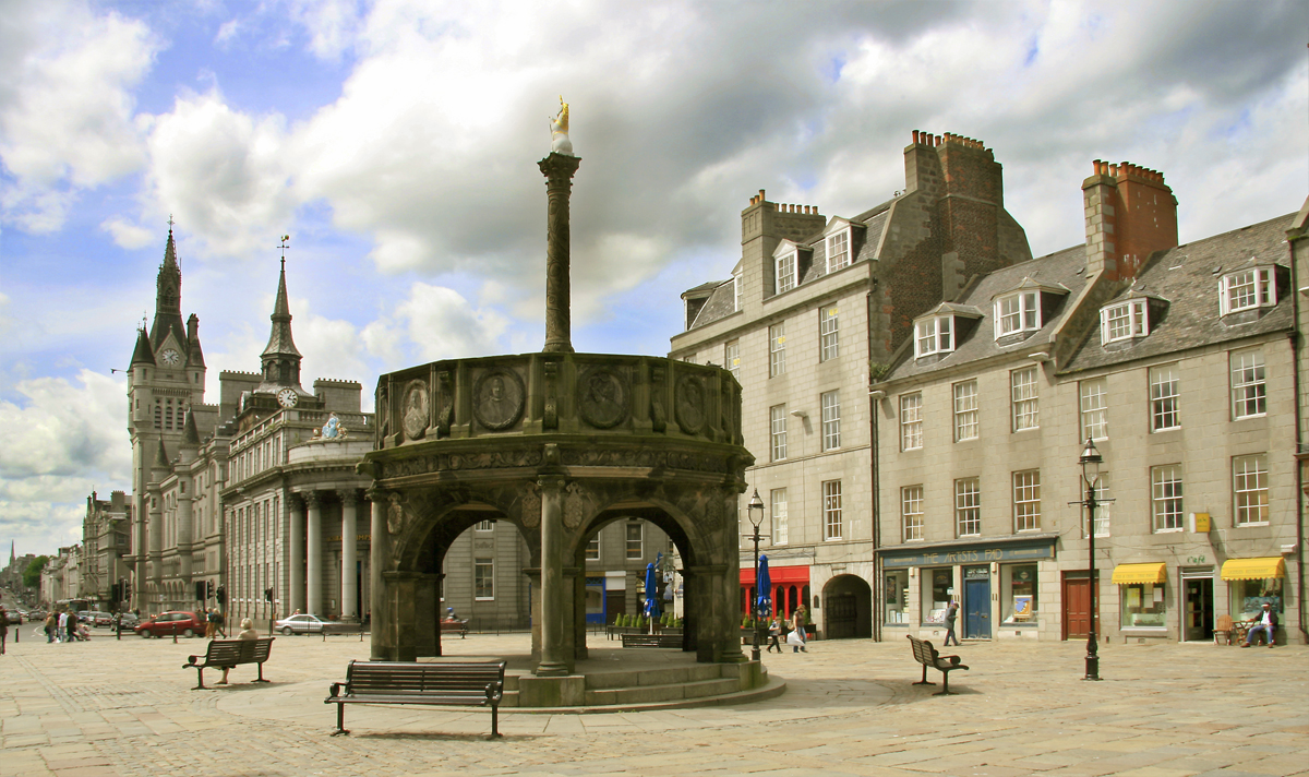 The castle gate in Aberdeen, Scotland is a very historical place and carries a lot of memories.